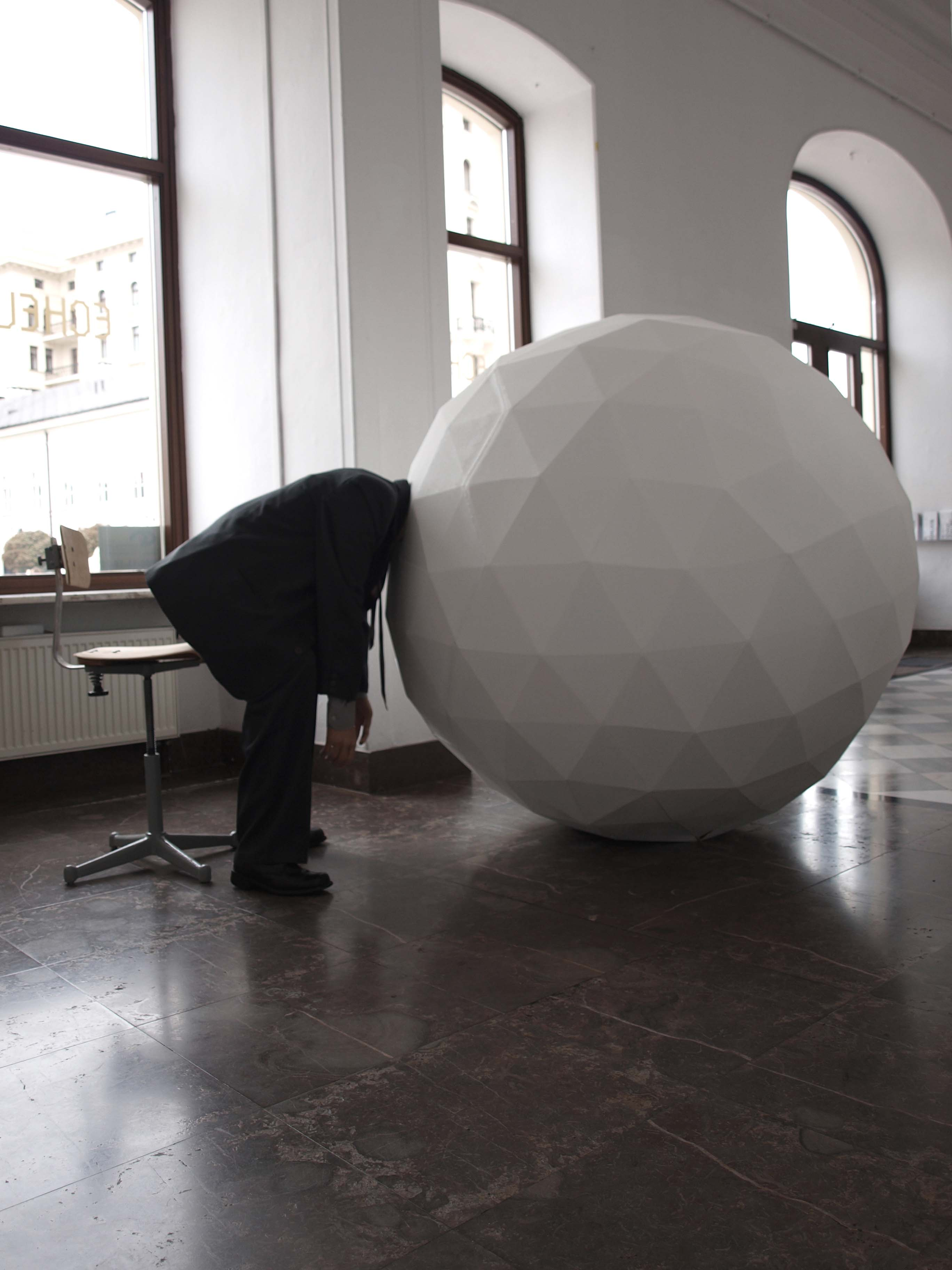 praca Szymona Kobylarza pt. Echelon70, zdjęcie autora